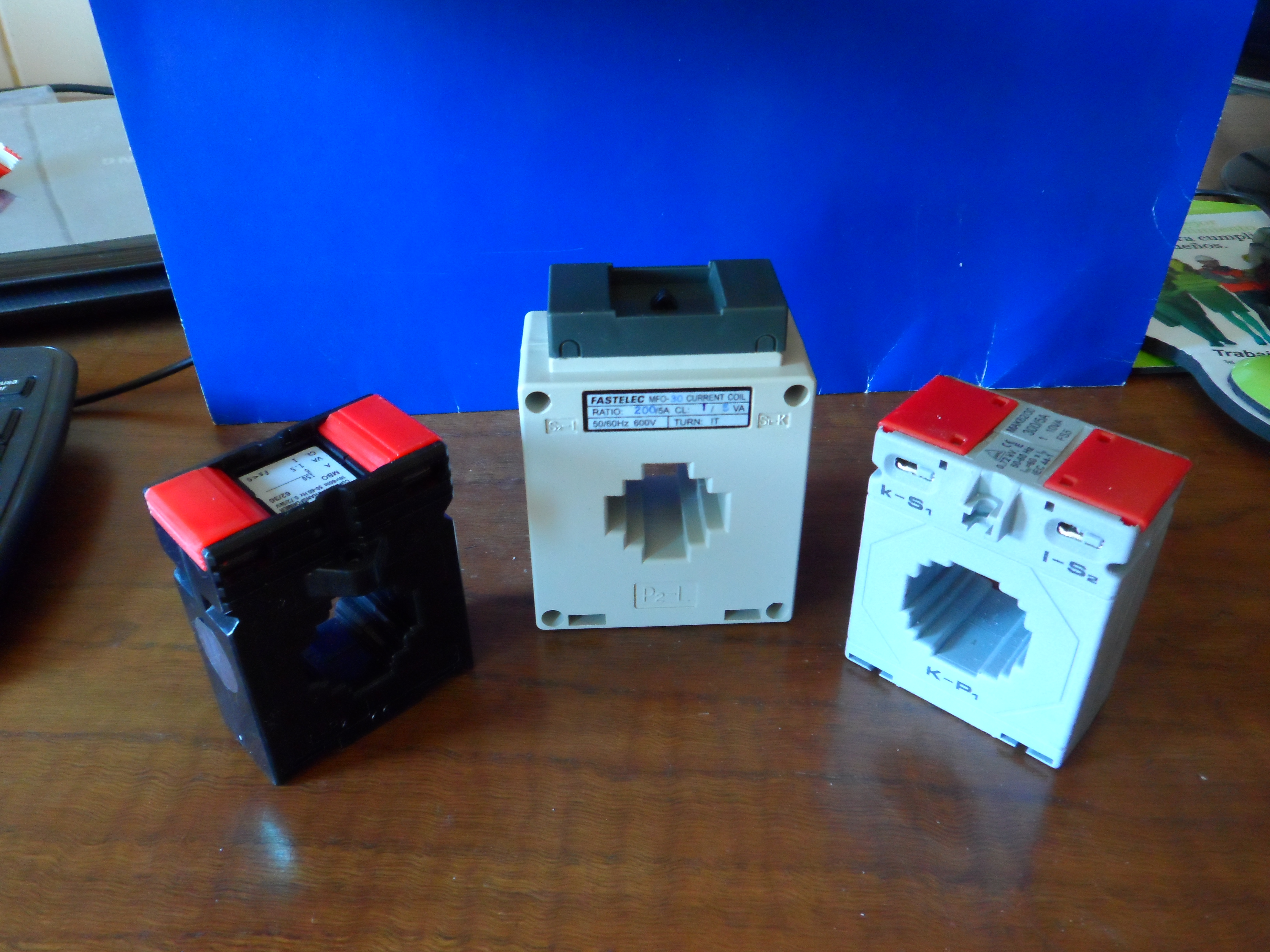 Tres transformadores de corriente: De izquierda a derecha: De 150/5Amperes, 200/5Amperes, 300/5Amperes